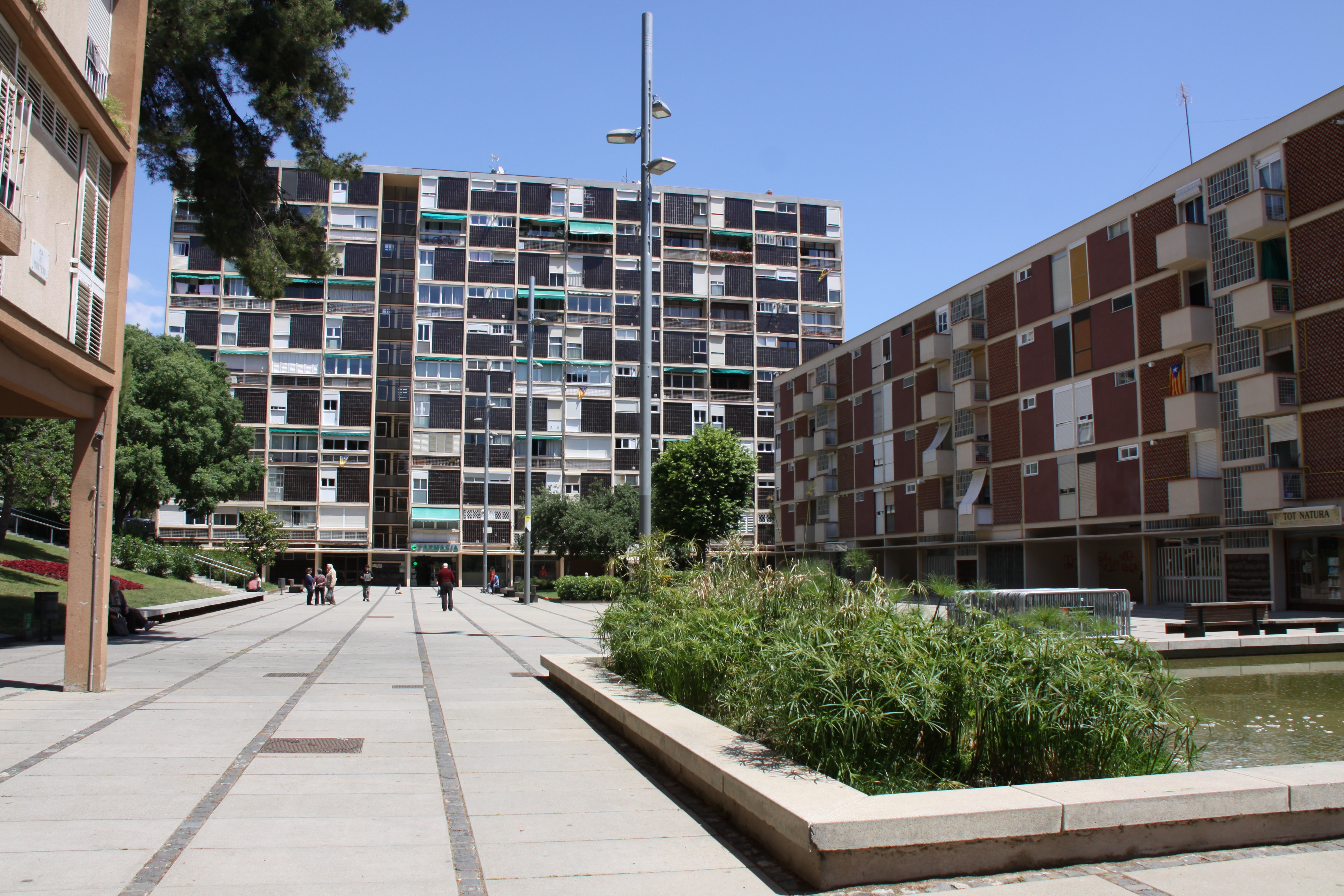 Montbau quarter in Barcelona (1957-68), by architects Giráldez, López Íñigo and Subías. Main square, upper level, eastwards